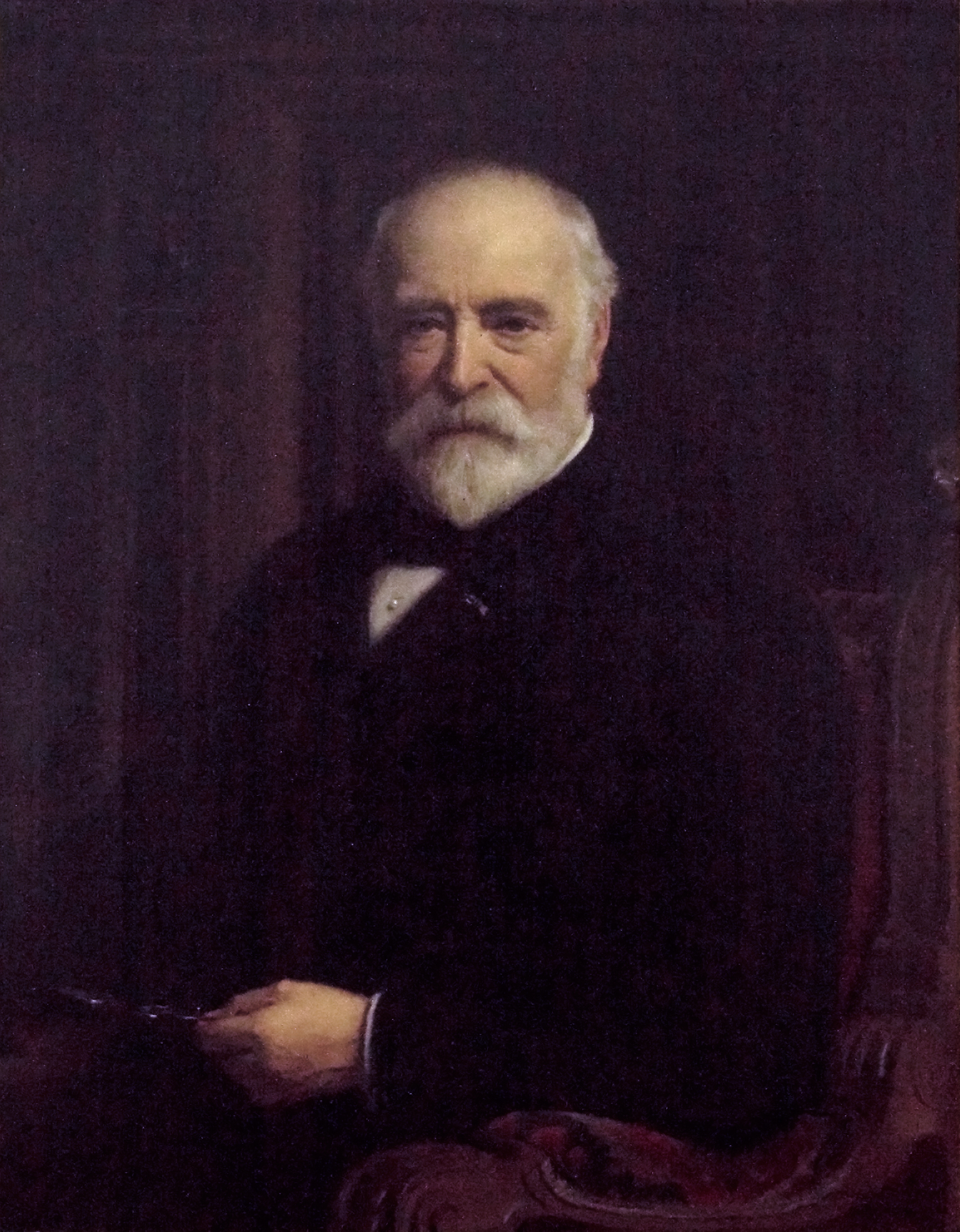 Hendrik Jacobus Scholten: Q17344392 Artist Hendrik Jacobus Scholten (1824–1907) Alternative names Hendrik-Jacobus Scholten; professor h. j. scholten; H. I. Scholten; Scholten; a. j. scholten; Hendrik Jacobus SchöltenDescriptionDutch painter, aquarellist, etcher and curatorDate of birth/death 11 July 1824 29 May 1907 Location of birth/death Amsterdam HeemstedeWork location Amsterdam, Haarlem (1872-....)Authority control : Q474193 VIAF: 73395983 ISNI: 0000 0000 6708 6110 ULAN: 500029181 LCCN: no00037665 Open Library: OL7220660A WorldCat artist QS:P170,Q474193Title